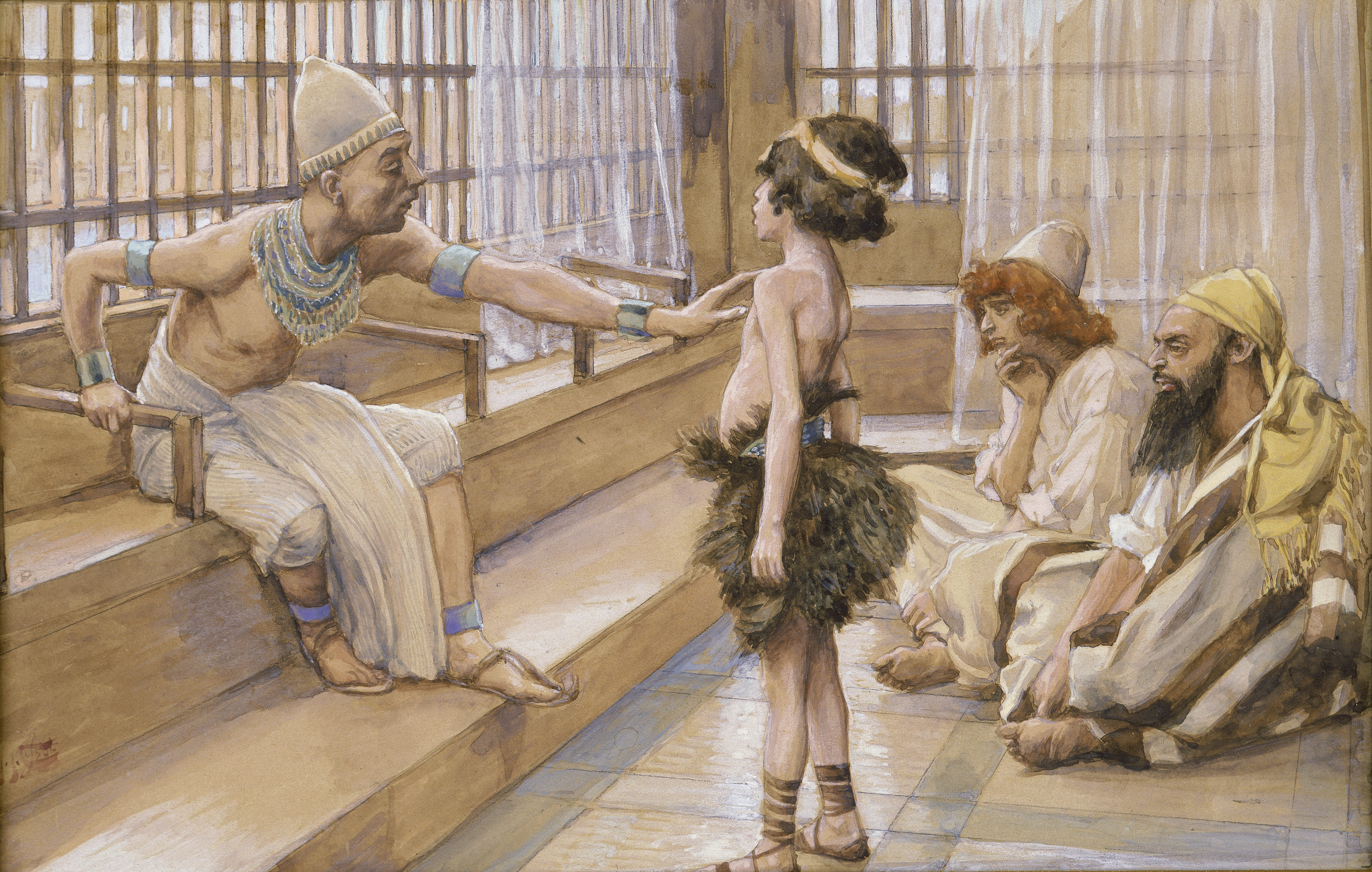 Joseph Sold Into Egypt, c. 1896-1902, by James Jacques Joseph Tissot (French, 1836-1902), gouache on board, 6 3/8 x 10 in. (16.2 x 25.4 cm), at the Jewish Museum, New York